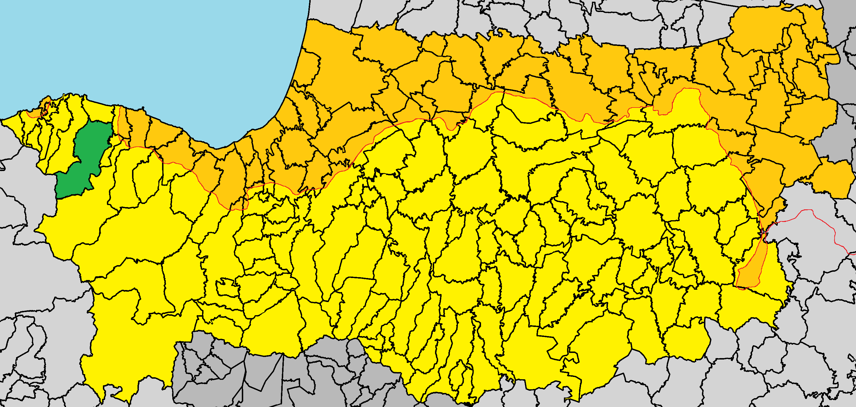 Pano Pyrgos in Nicosia District.